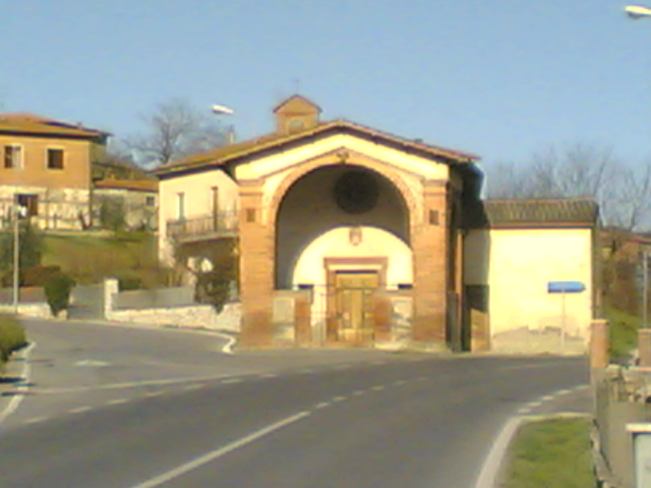 Serraglio's church.